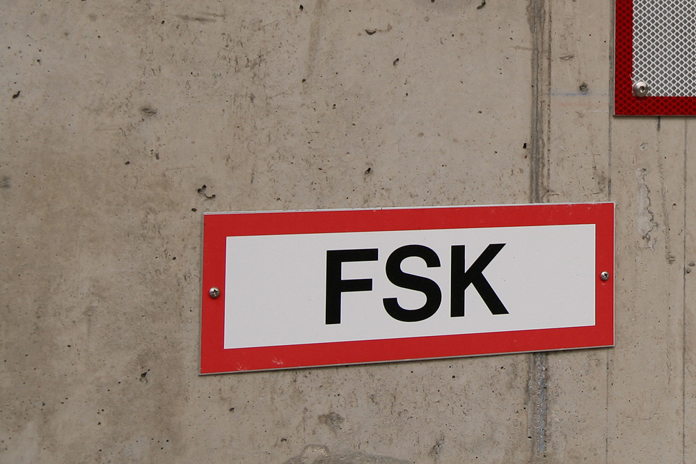 A sign indicating a Feuerwehrschlüsselkasten (key depot for firefighters) at an emergency exit in Germany.